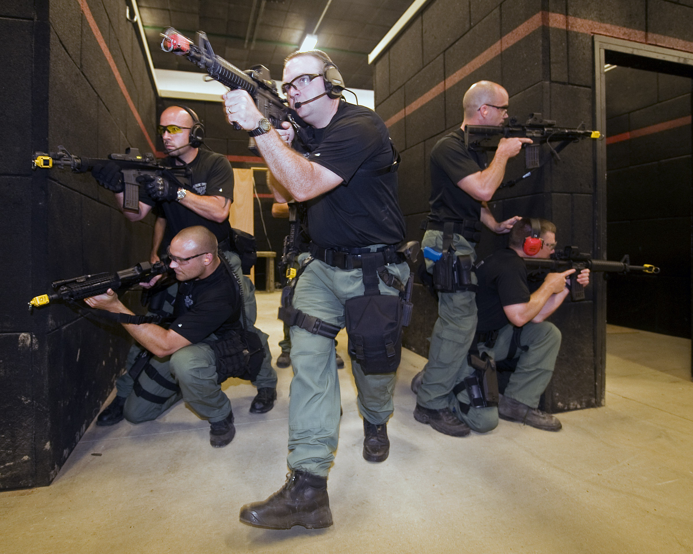 Police officers of the Noblesville, Ind., Police Department's Emergency Response Unit tactically breach rooms and hallways of the Camp Atterbury Joint Maneuver Training Center Live Fire Shoot House in central Indiana, May 13. The shoot house consists of steel walls covered in a form of rubber designed to absorb ricochet bullets, ensuring the safety of those inside.